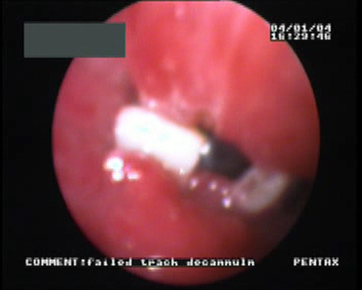 Fractured tracheal ring prolapsing into tracheal lumen above tracheostomy tube.